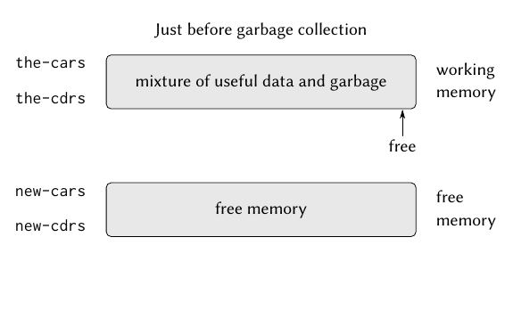 (From the description p.761 (733) in the pdf file): Stop-and-copy garbage collection: memory is divided in two halves: working memory and free memory. When cons constructs pairs, it allocates these in working memory. When working memory is full, we perform garbage collection by locating all the useful pairs in working memory and copying these into consecutive locations in free memory. (The useful pairs are located by tracing all the car and cdr pointers, starting with the machine registers.) Since we do not copy the garbage, there will presumably be additional free memory that we can use to allocate new pairs. In addition, nothing in the working memory is needed, since all the useful pairs in it have been copied. Thus, if we interchange the roles of working memory and free memory, we can continue processing; new pairs will be allocated in the new working memory (which was the old free memory). When this is full, we can copy the useful pairs into the new free memory (which was the old working memory). The description assumes a Lisp architecture. The diagram illustrates the situation right before garbage collection.